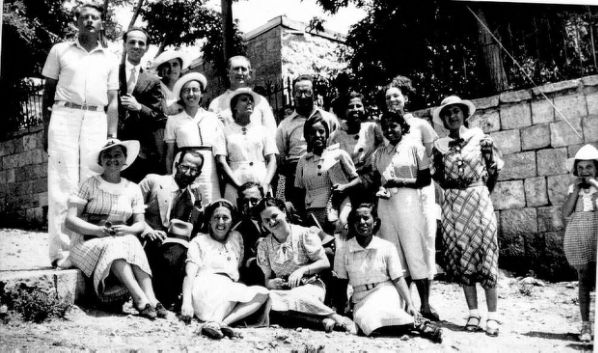 The Shem Choir, conducted by Max Lampel in Jerusalem. In the front row, sitting second from right is Sarah Avrahami (Klausner).